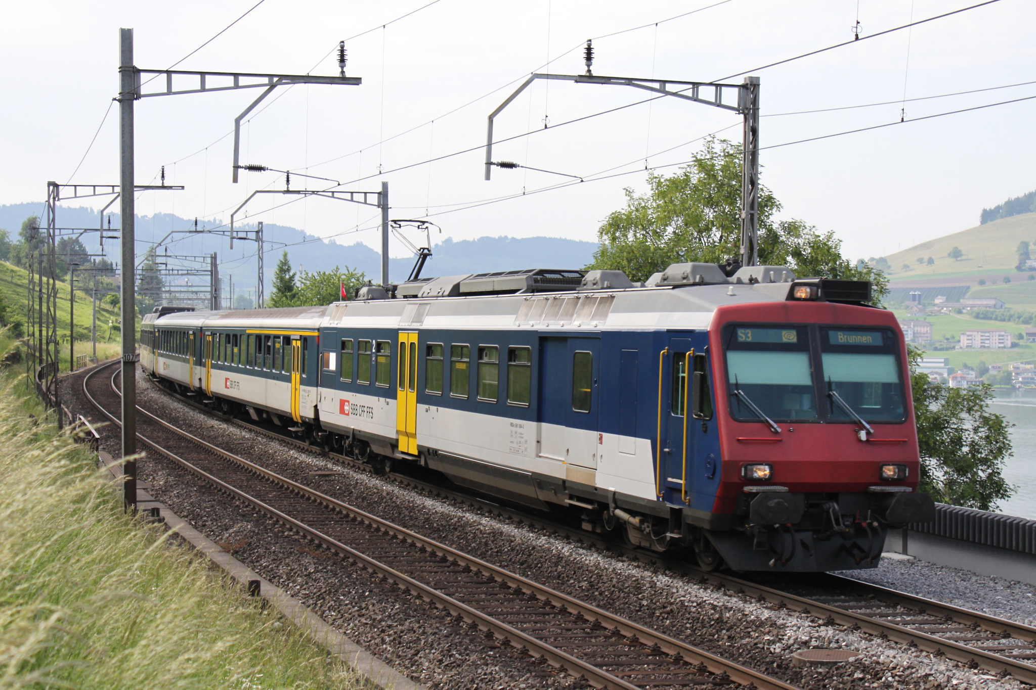 SBB CFF FFS RBDe 561 004-3 ahead of S3 21367 from Luzern to Brunnen at Immensee.